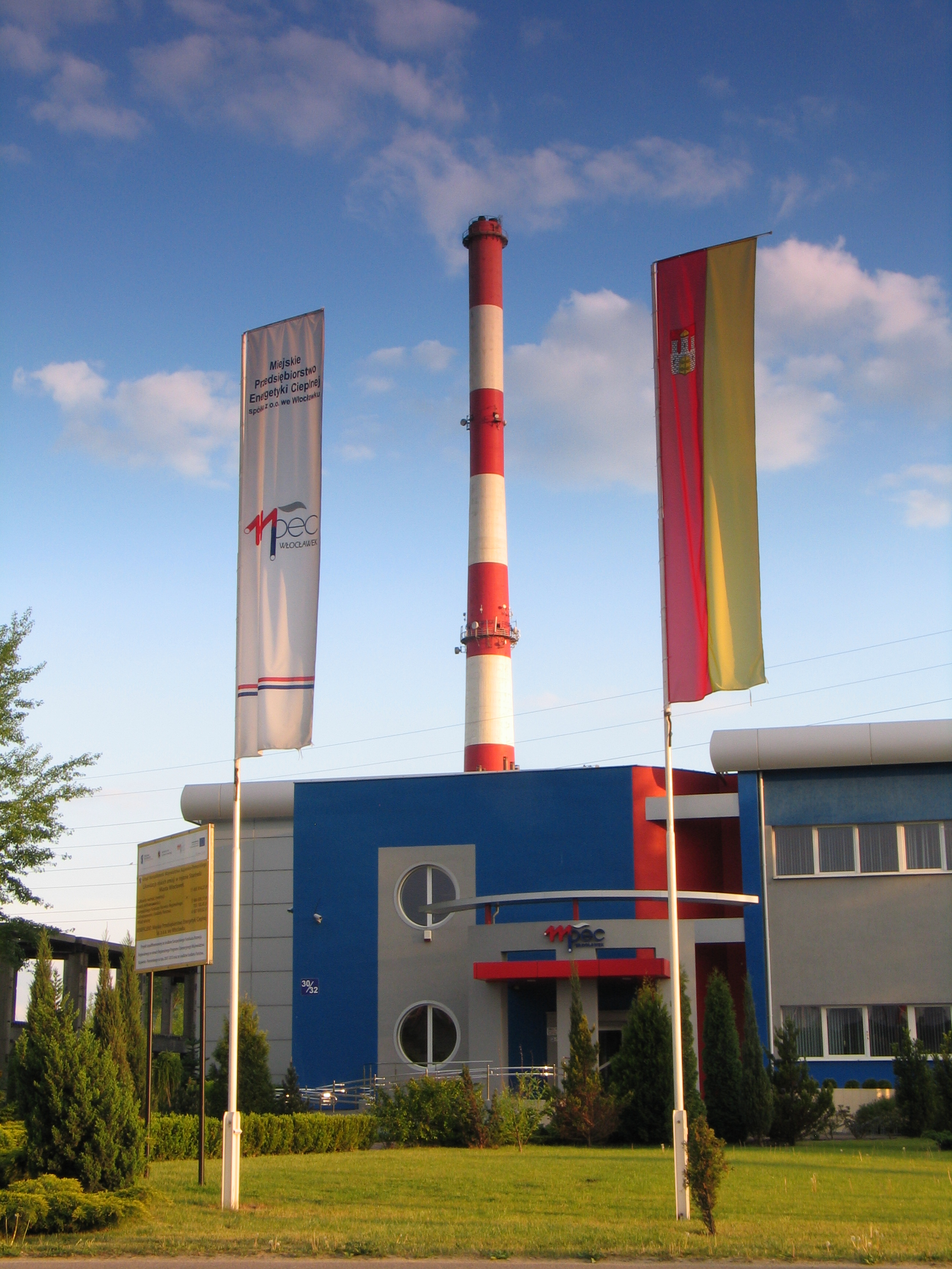 MPEC (Municipal Heating Company), Włocławek, Poland